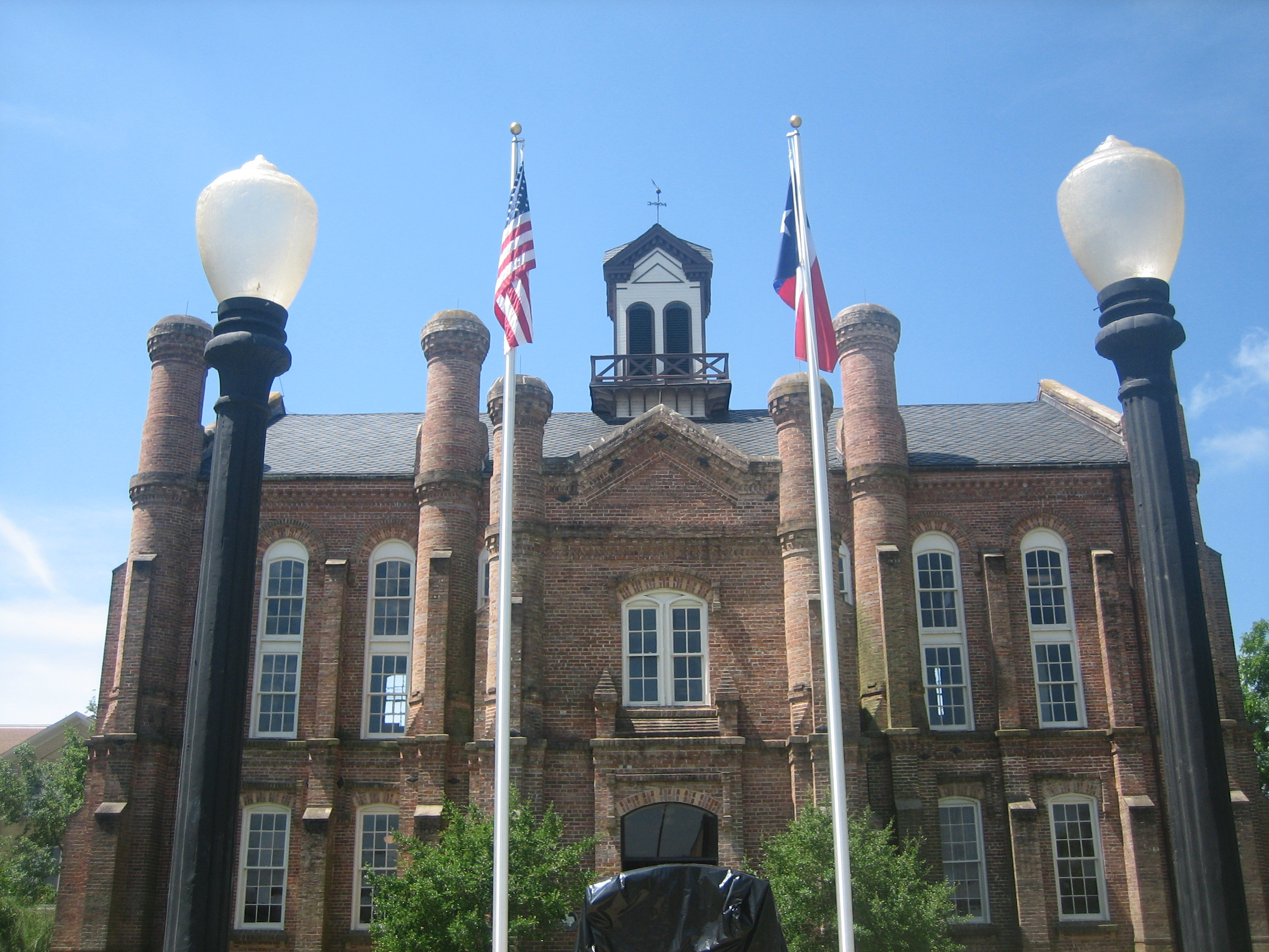 The historic Shelby County Courthouse in Center, Texas, United States. (Surrounded by Texas State Highway 7.)